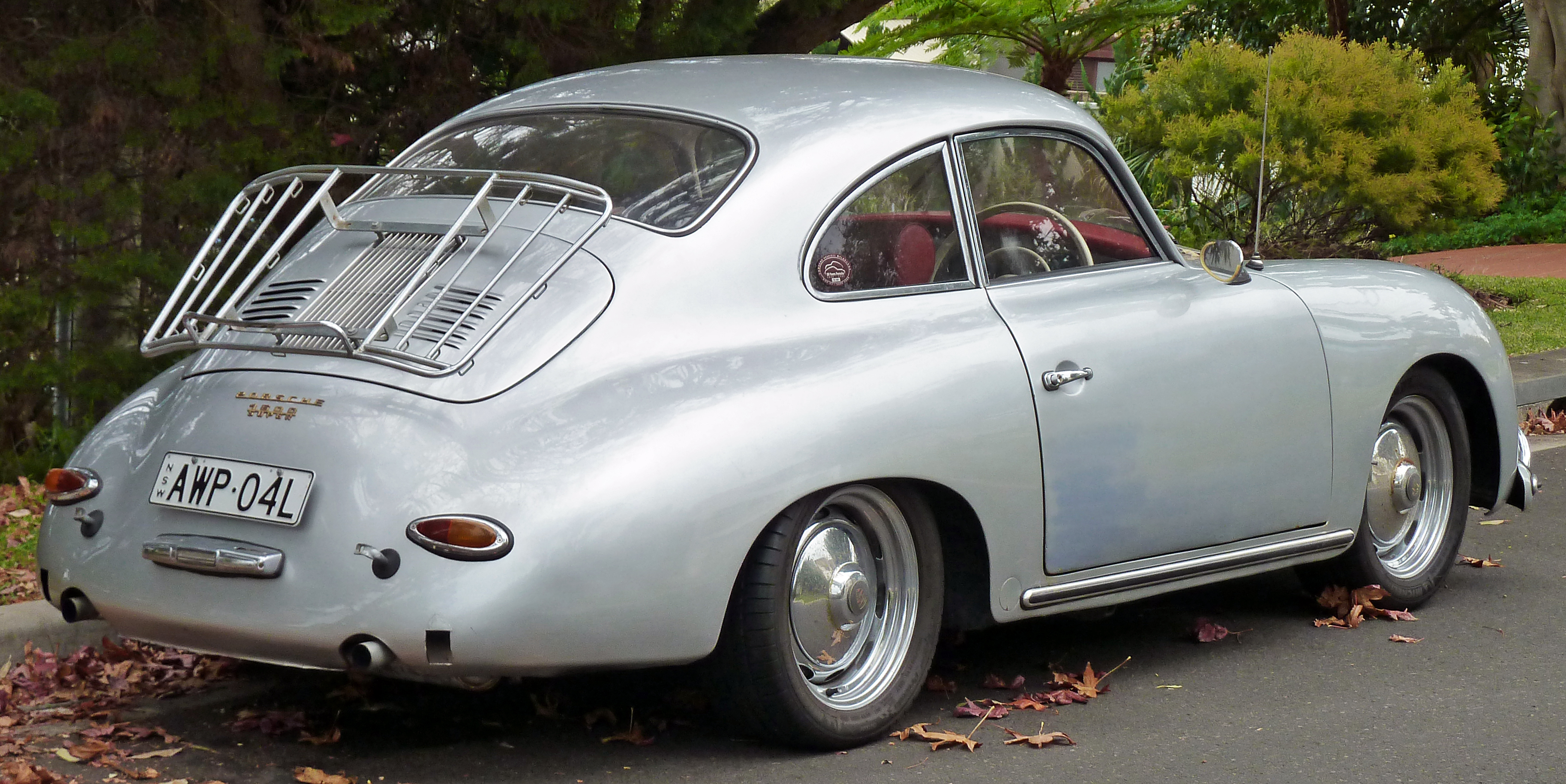 1958 Porsche 356 1600 Super coupe. Photographed in Cronulla, New South Wales, Australia.